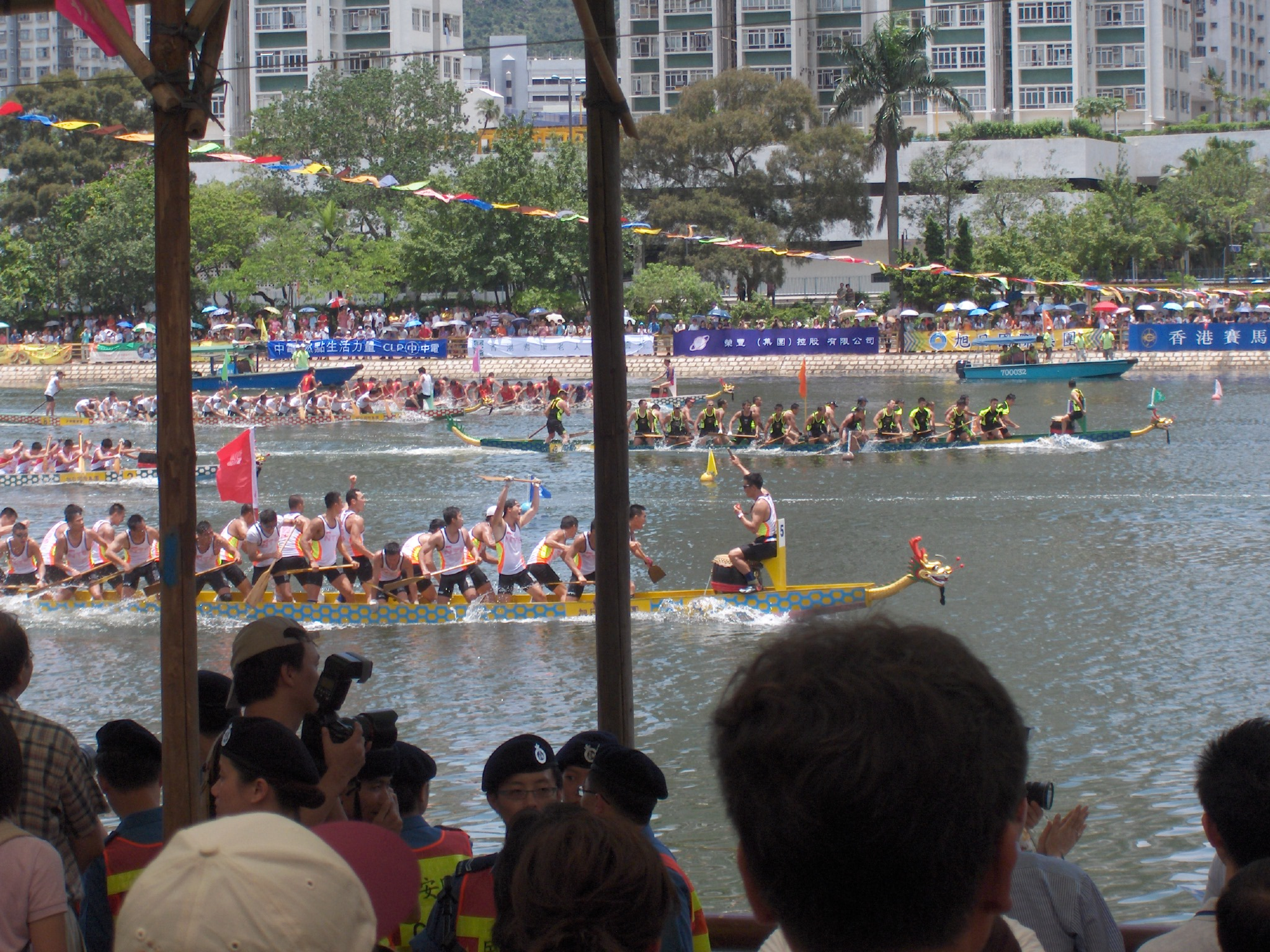 Dragon boats racing to the finish line